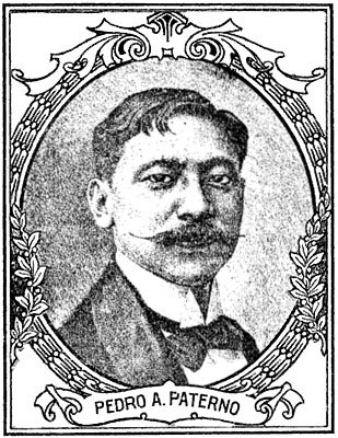 Image from the book "Mga Dakilang Pilipino" by Jose N. Sevilla